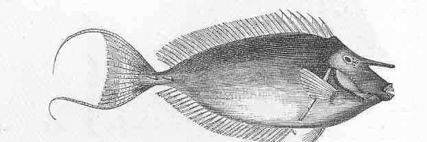 Naseus unicornis Subject: Surgeonfishes, Naseus Tag: Fish